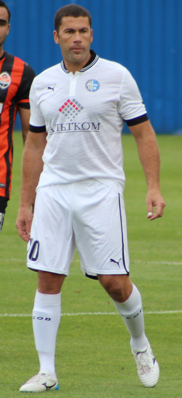 Vladyslav Helzin